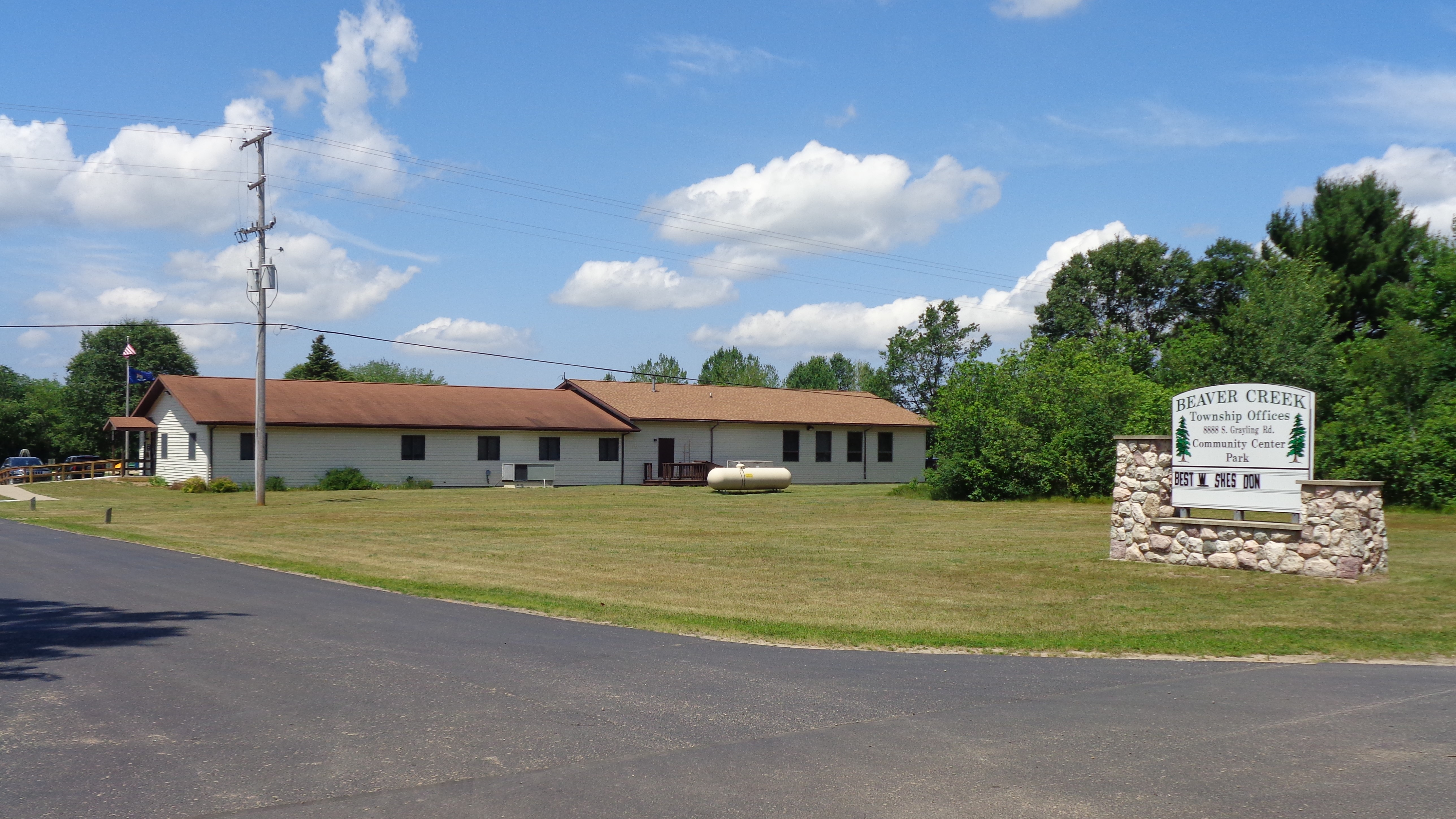 Beaver Creek Township Hall (Michigan)